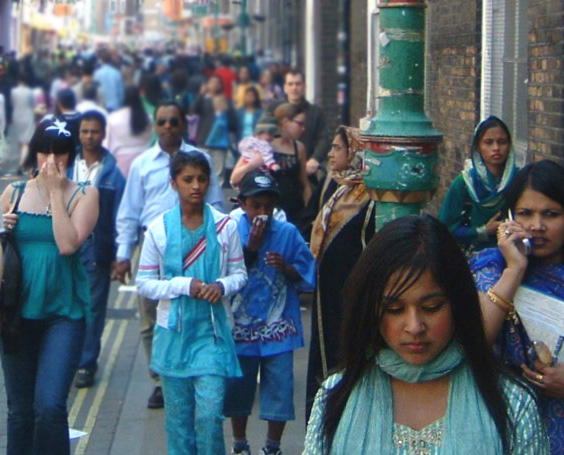 More crowds on Brick Lane